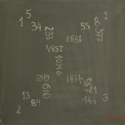 "Fibonaccis Traum" Painting by Martina Schettina 2008, 40 x 40 cm